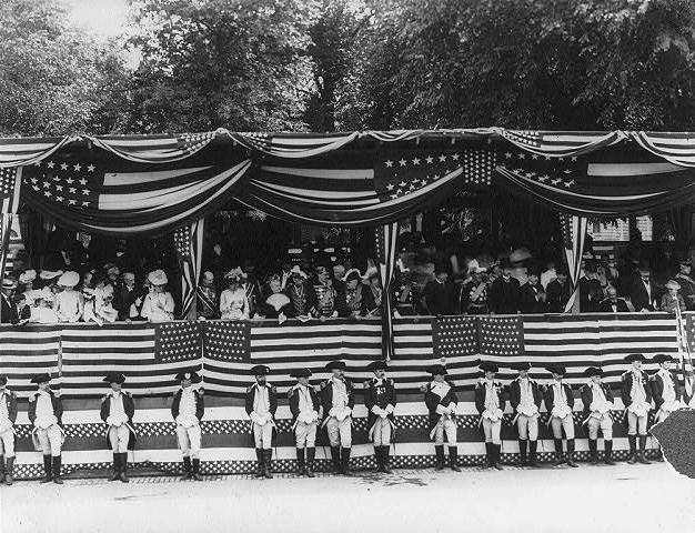 President Theodore Roosevelt standing in reviewing stand for ceremony to unveil Rochambeau statue by J.J. Fernand Hamar in Lafayette Square, Washington, D.C.